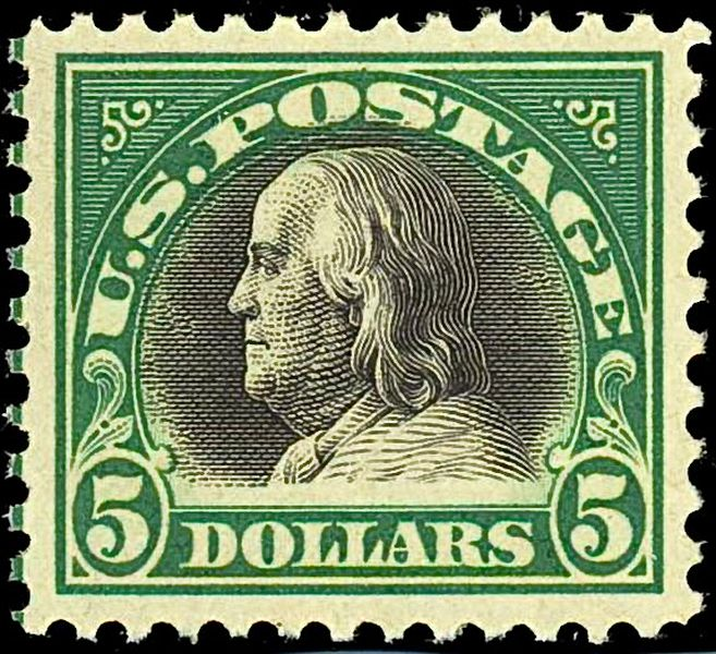 US Postage stamp, Washington-Franklin, issue of 1918, Franklin, 5-dollars. green and black